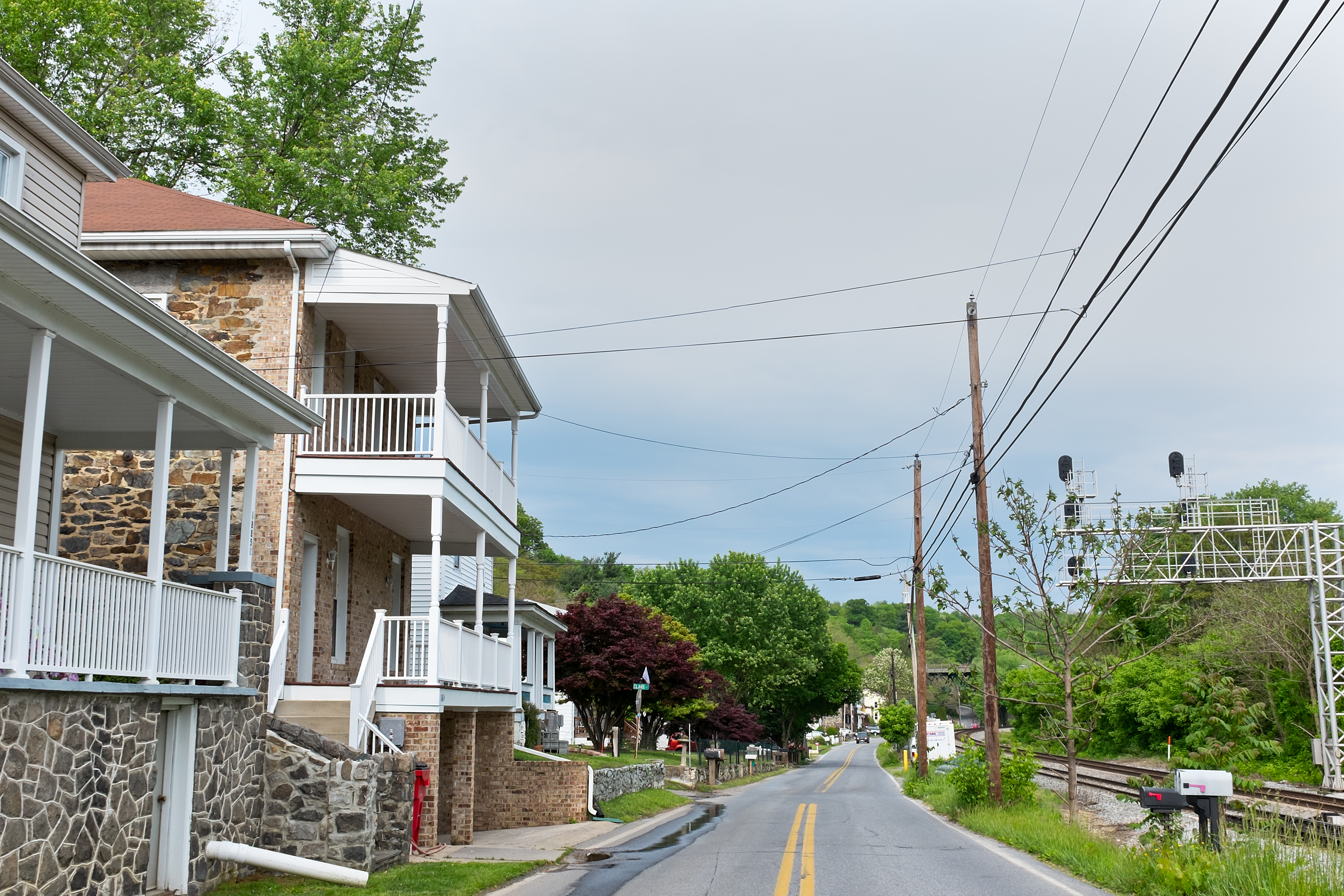 Another view of Sandy Hook, MD